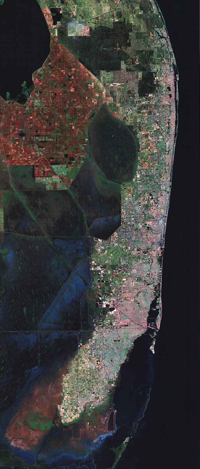 From file in the public domain. A satellite image of South Florida.